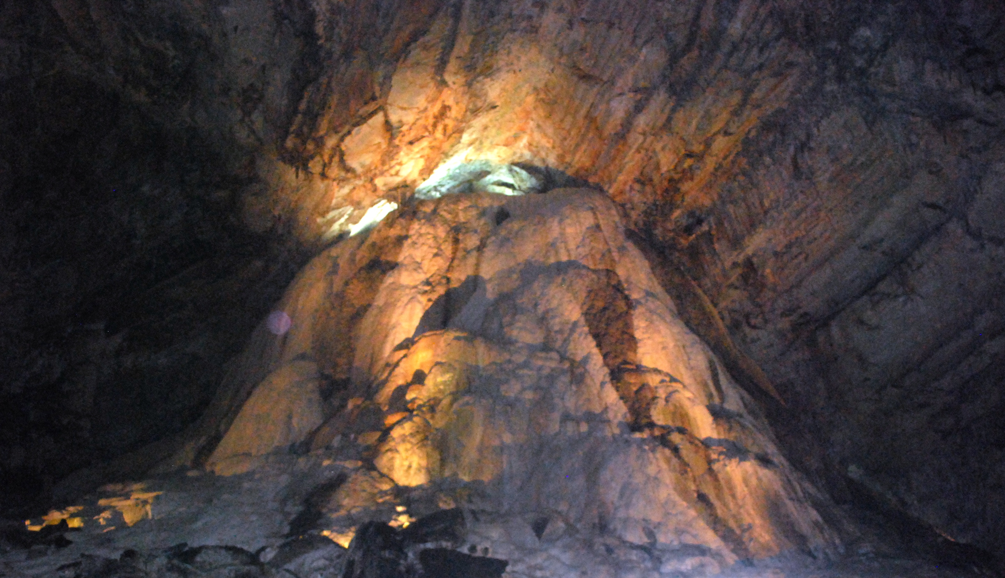 Formation at the Cacahuamilpa Caverns in Guerrero state, Mexico